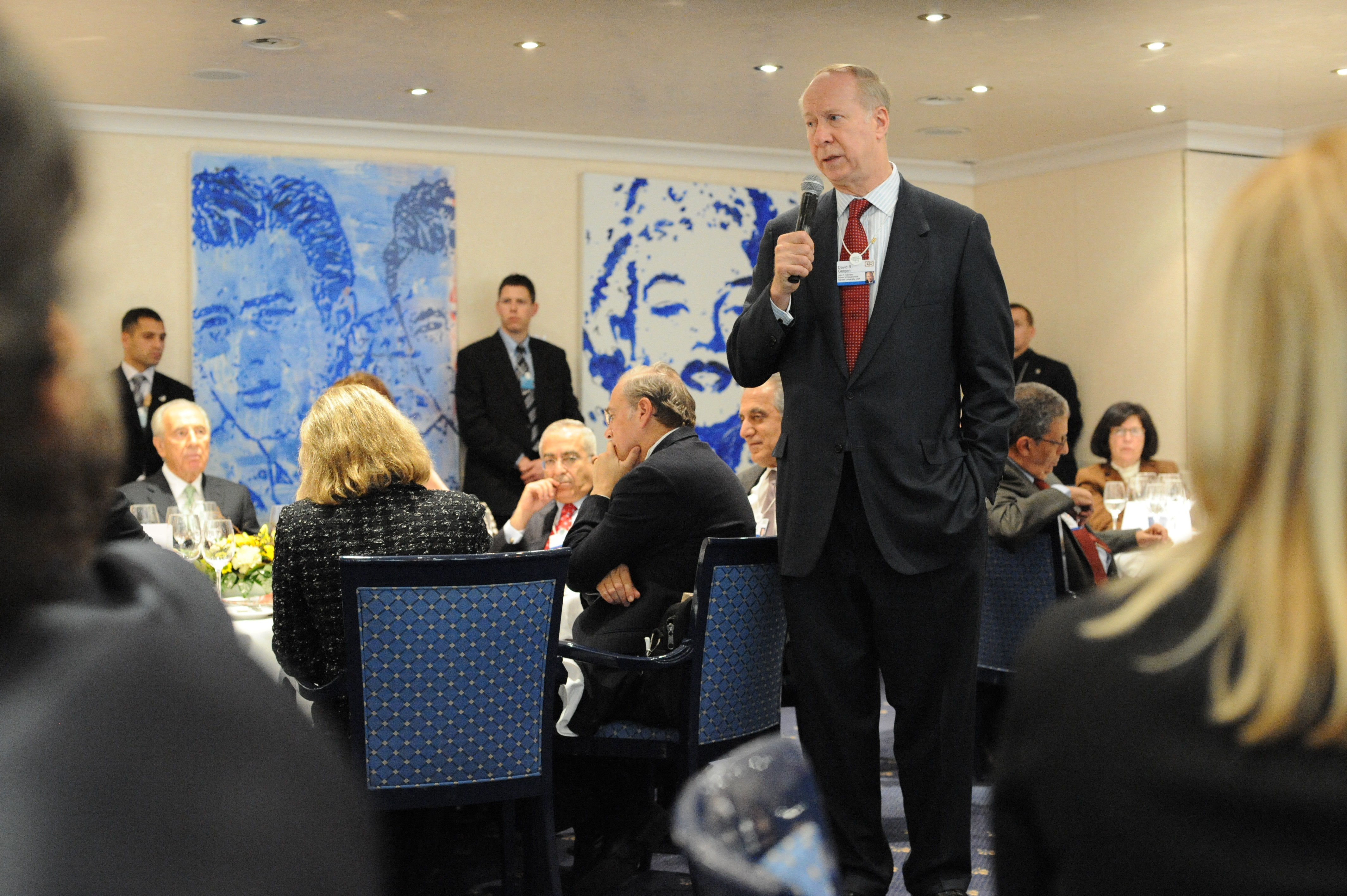 David Gergen at the 2008 World Economic Forum.